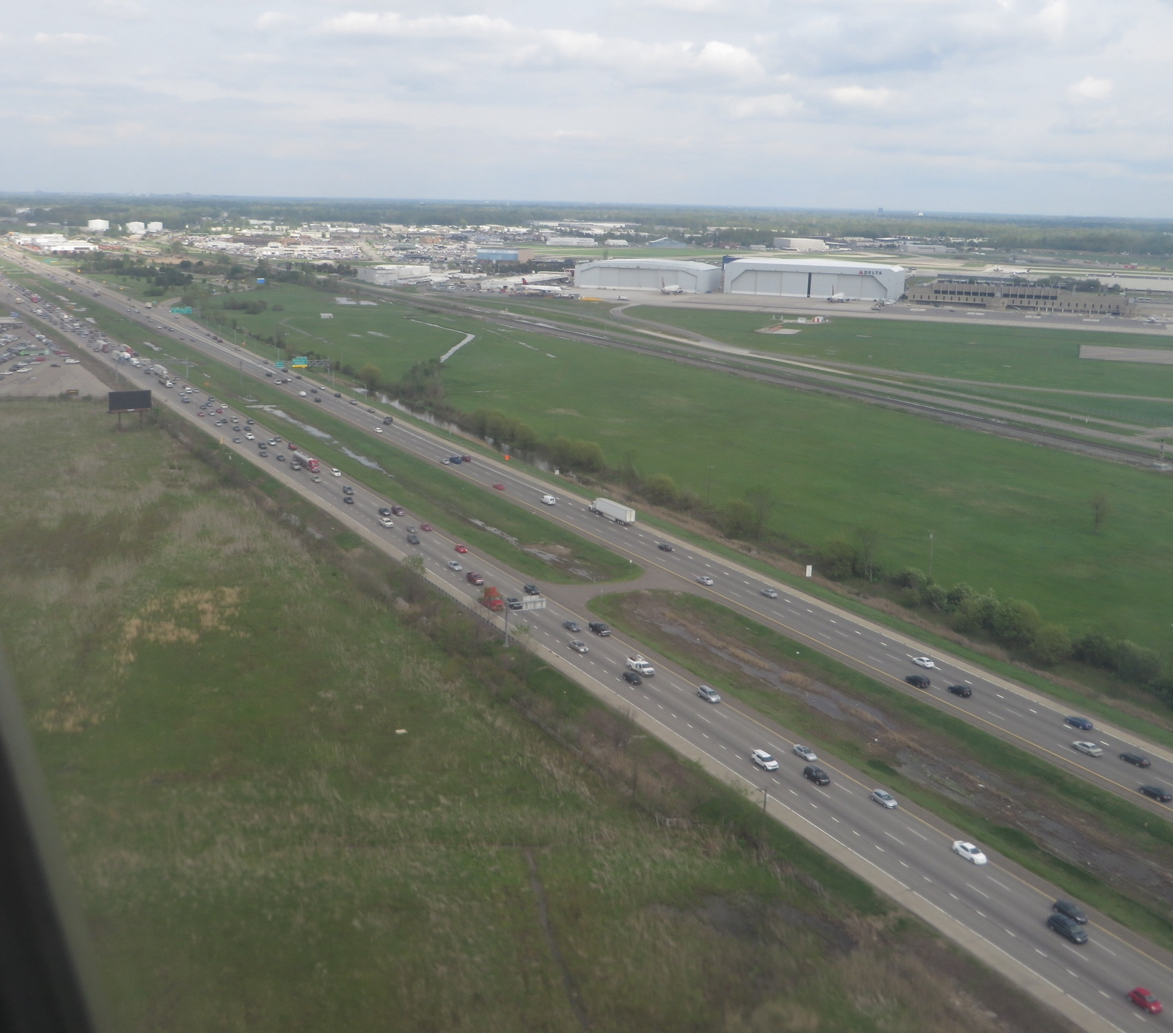 Interstate 94 near Detroit Metropolitan Wayne County International Airport in Romulus, Michigan